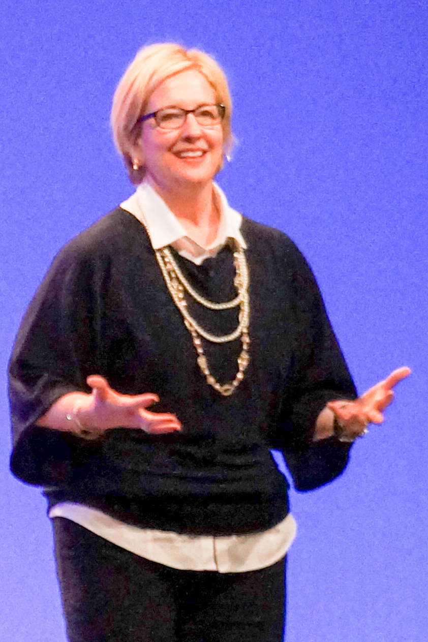 Dr. Brene Brown @ Texas Conference for Women - Oct. 24, 2012, Austin